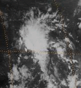 Satellite image of Tropical Depression Six near peak intensity